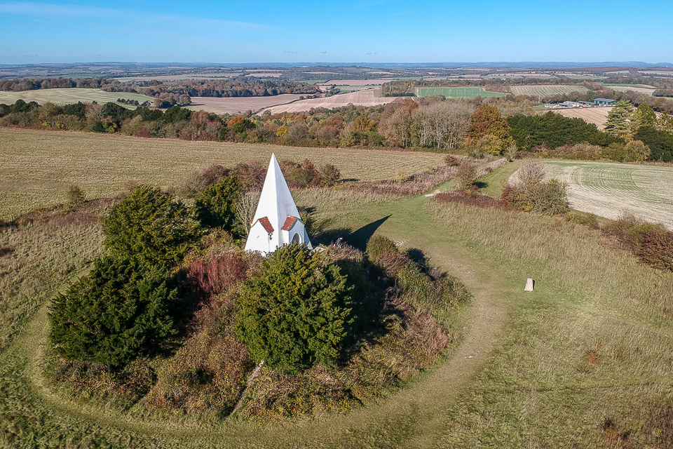 Aerial shot of Farley Mount and Monument